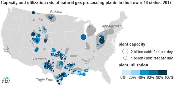 EIA estimates that between 2014 and 2017 natural gas processing capacity and processing throughput increased by about 5% on a net basis in the Lower 48 states, even as the number of individual plants declined. Natural gas processing plant utilization rates stayed constant at 66% from 2014 to 2017, but several states experienced significant changes, largely reflecting changes in natural gas production across regions. March 7, 2019